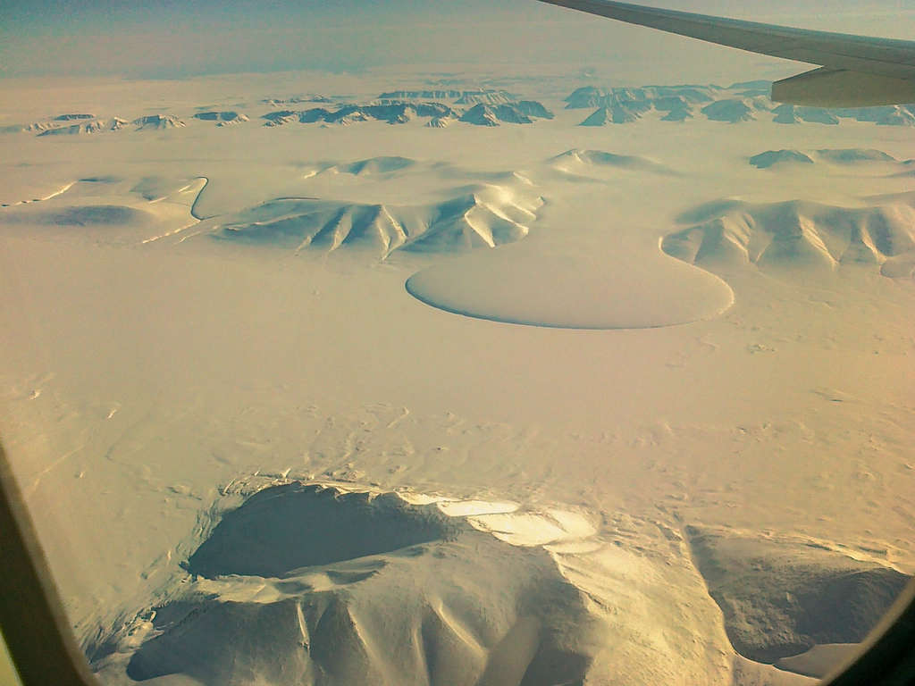 5th May 2012: North Polar flight with Air Berlin - Flight back to Northeast Greenland - Elephant foot Glacier at Romer Lake (Photo by: Basti, Editor: Hedwig)